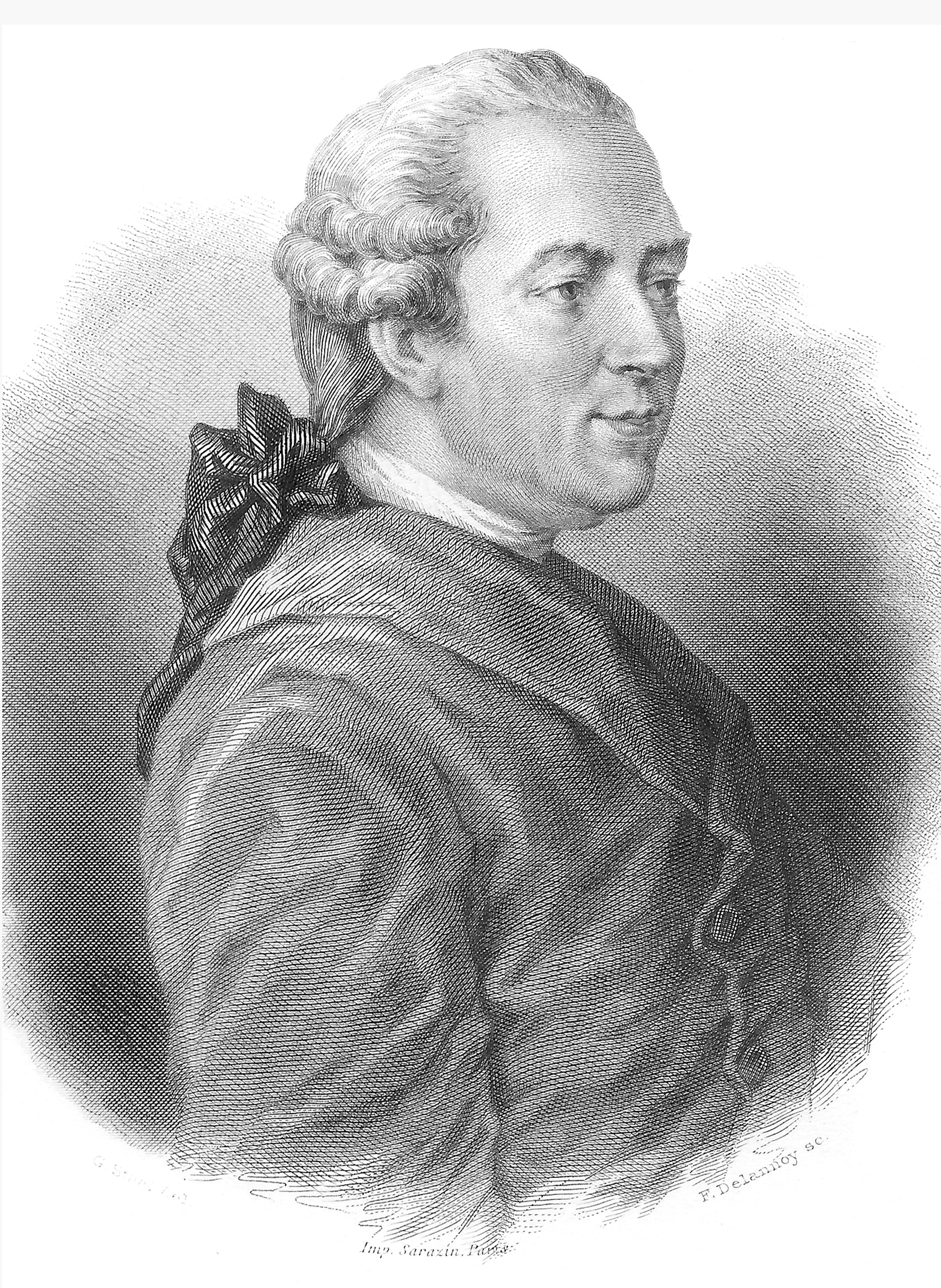 F. Delannoy, imprimerie Sarazin Paris Extrait des Oeuvres complètes de Beaumarchais, Garnier Frères, Paris 1874